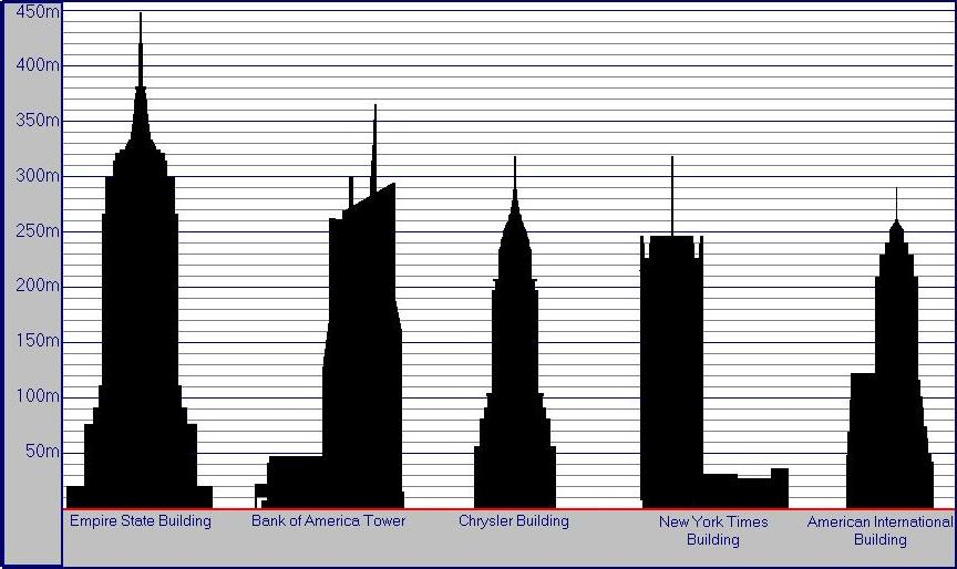 Five tallest skyscrapers of New York - Empire State Building, Bank of America Tower, Chrysler Building, New York Times Building, American International Building